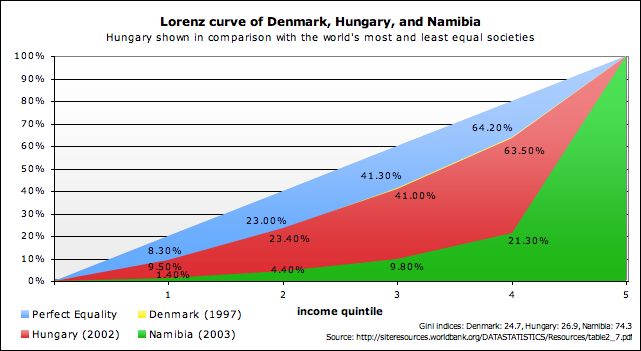 Lorenz curve of Denmark, Hungary, and Namibia in 1997, 2002, and 2003, respectively.